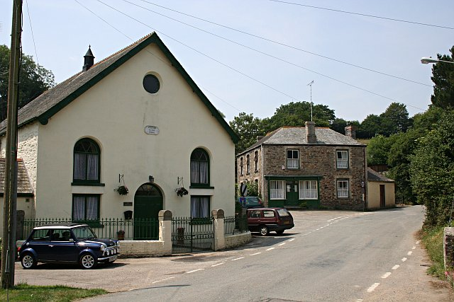 Ladock. The house in the foreground used to be Ladock Methodist Church.